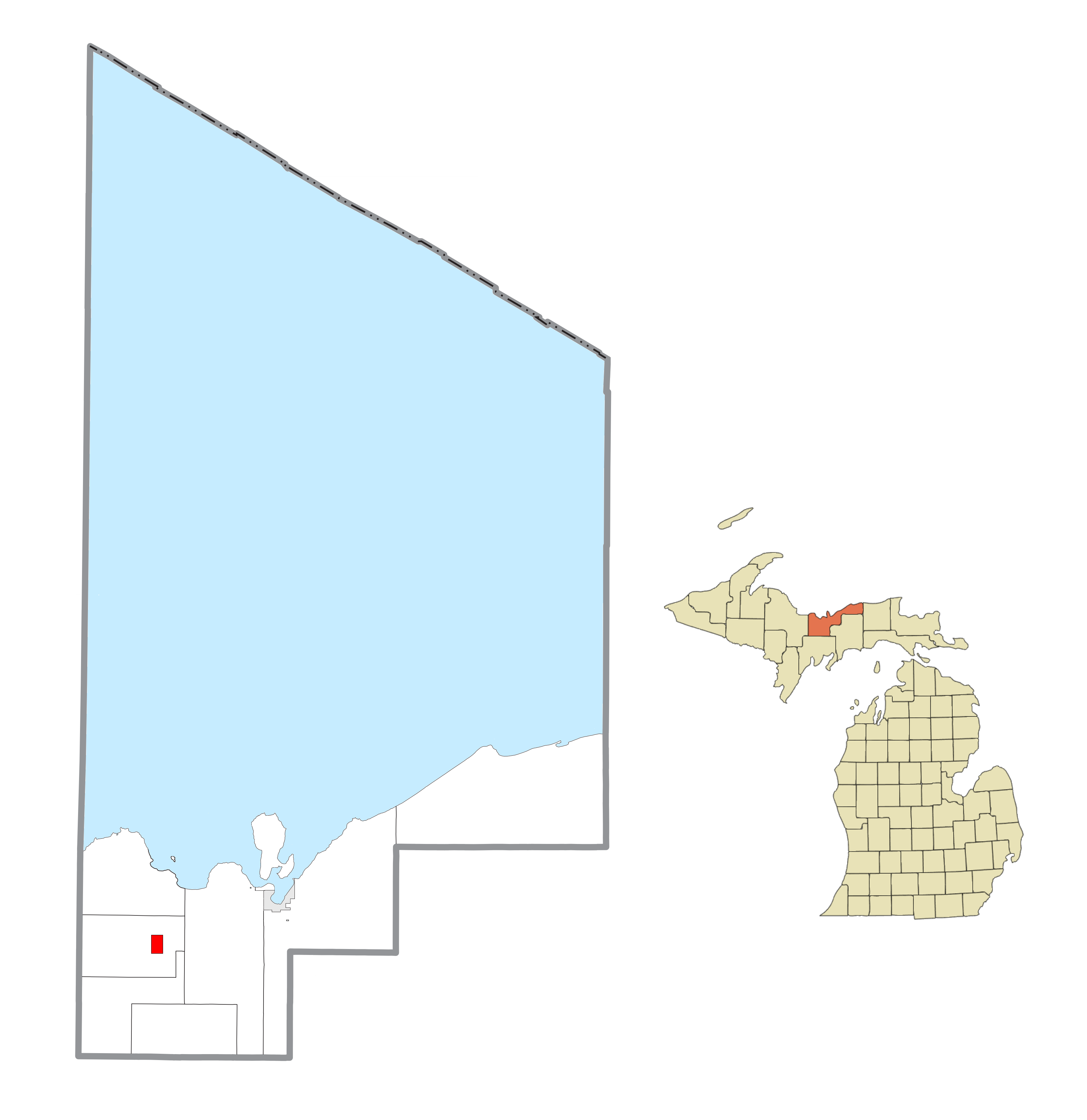 Chatham, MI